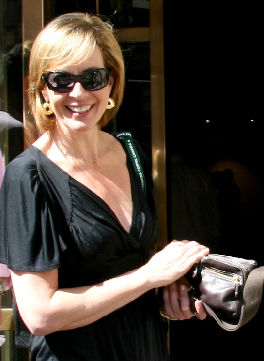 Allison Janney at the 2007 Toronto International Film Festival